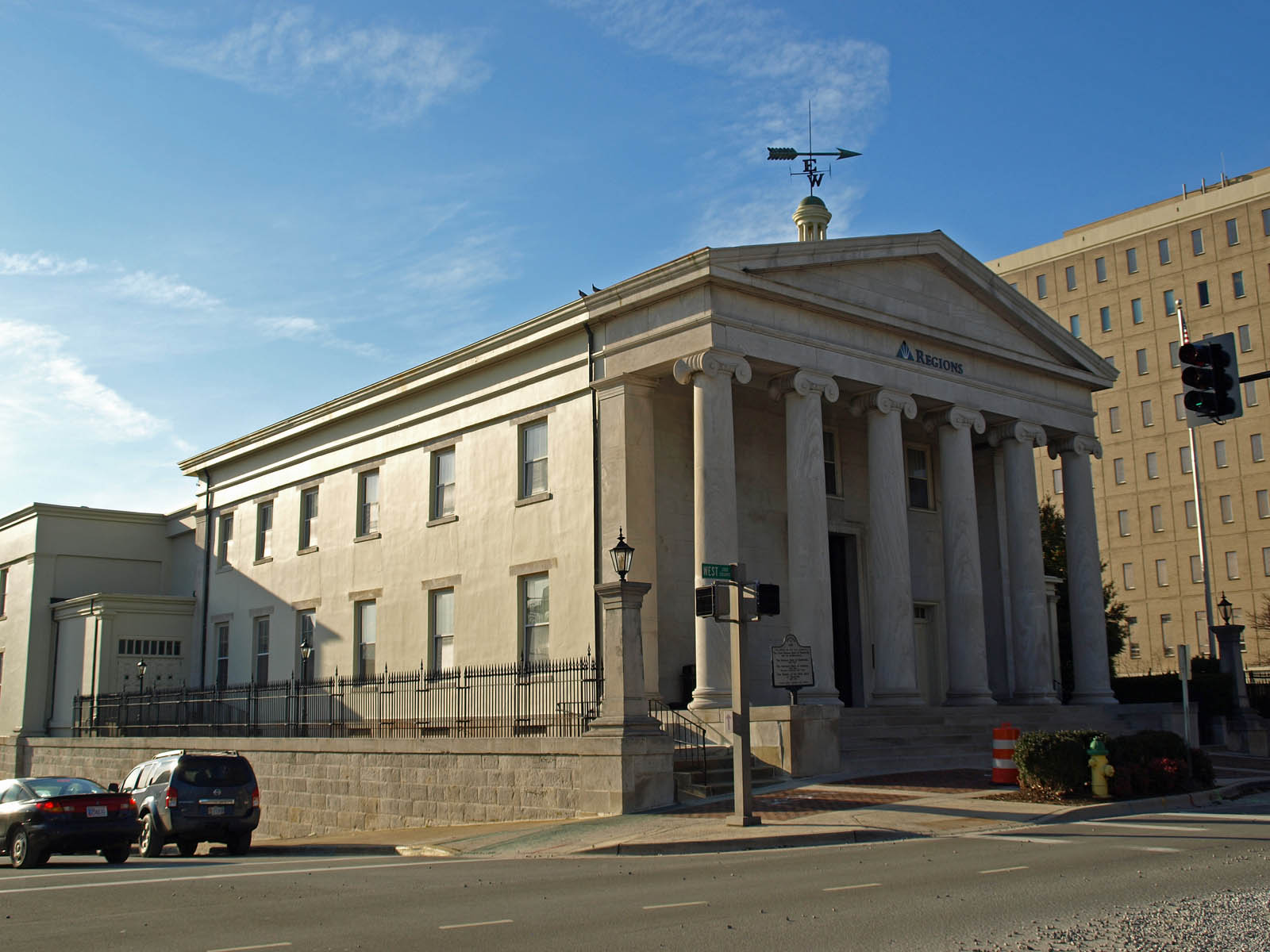 The First National Bank Building in Huntsville, Alabama, listed on the National Register of Historic Places.